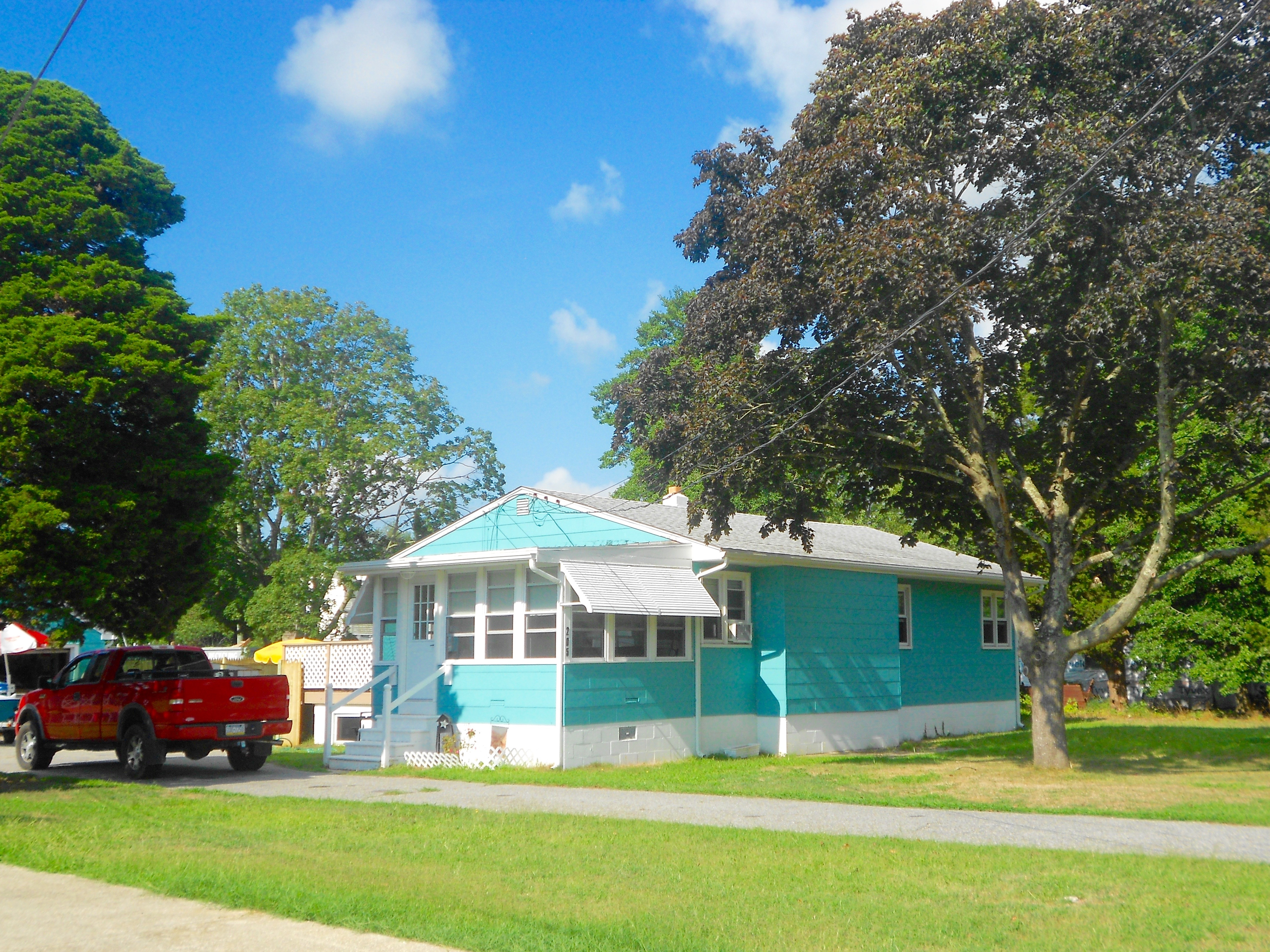 House in Burleigh, an unincorporated community in Cape May County, New Jersey